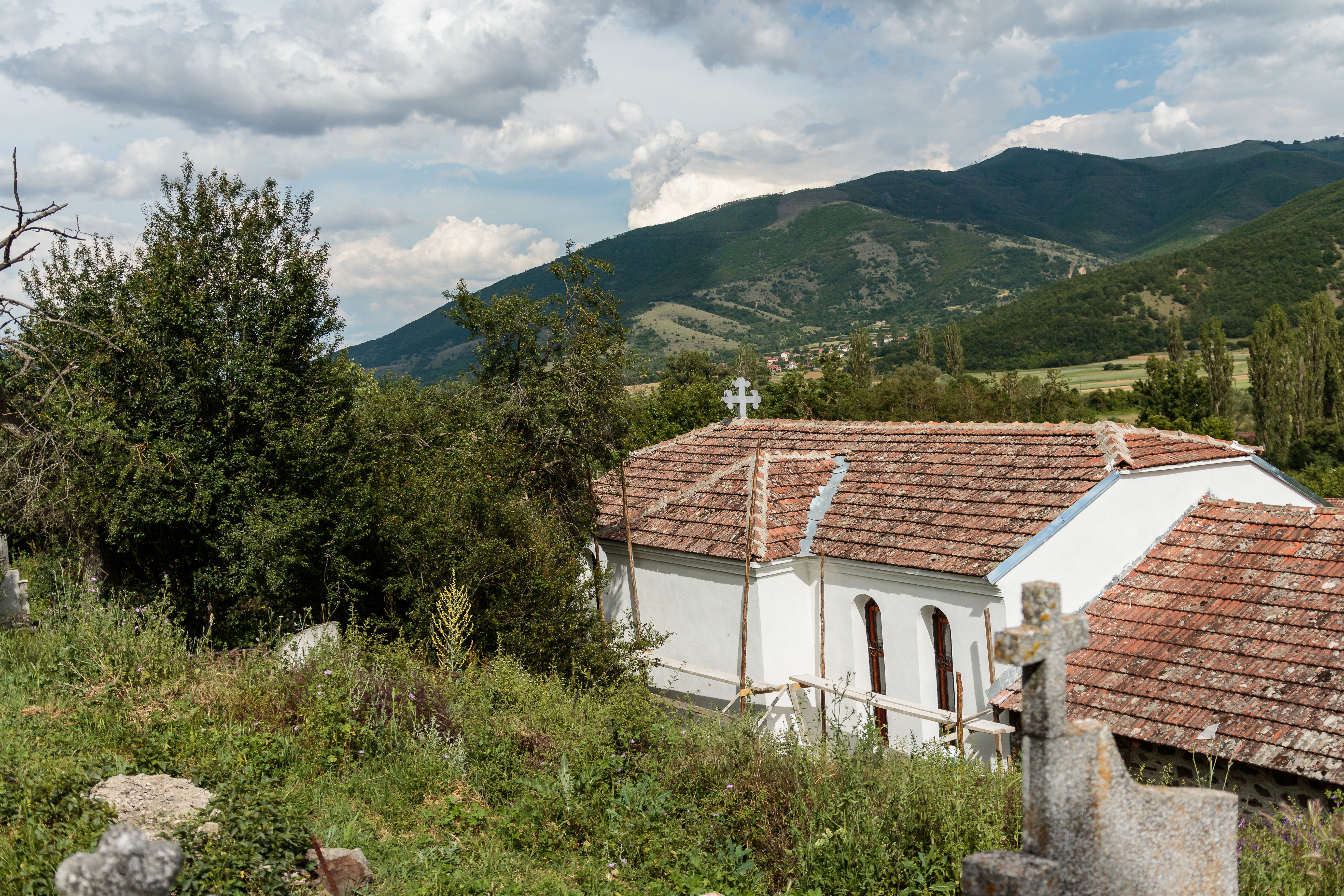 Church in the village Graište